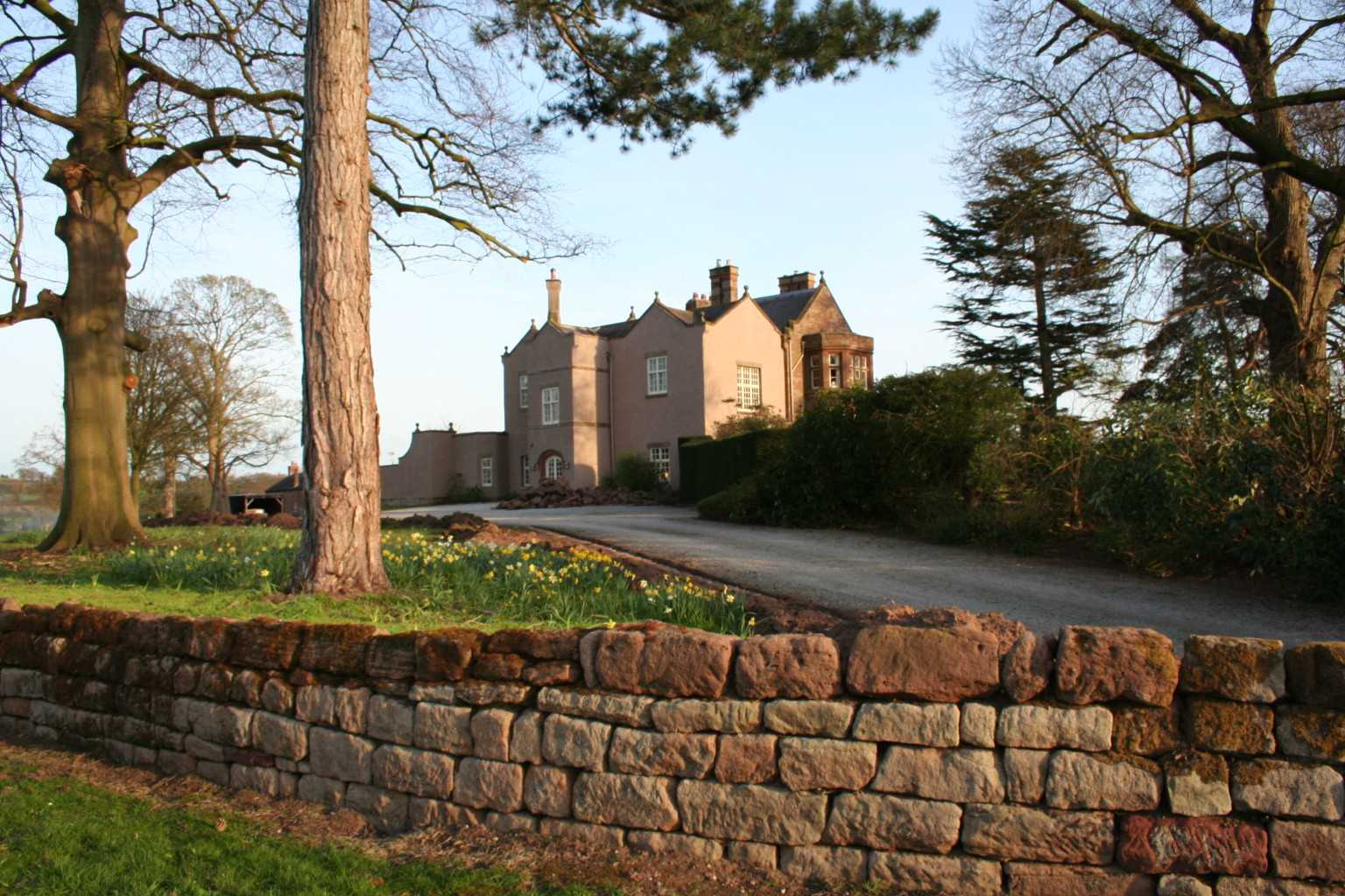 Chorlton Hall, Chorlton. Not to be confused with 118150. Chorlton Hall is 19th century, Grade-II listed.